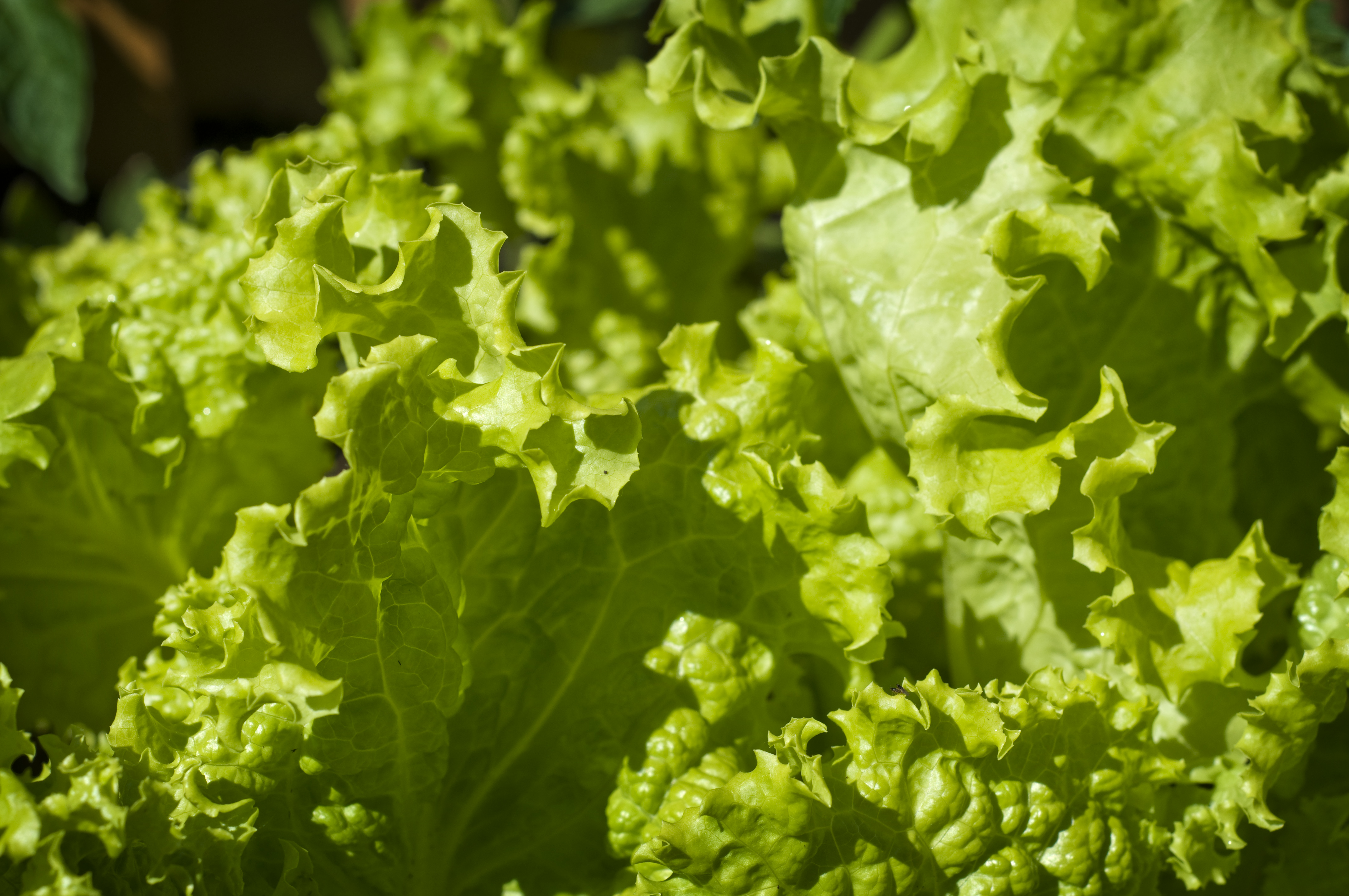 Did you know there's a variety of lettuce called "Grand Rapids (Lactuca sativa L. cv. Grand Rapids)"? This is what it looks like. The leaves are broad with very curly edges. It's lighter than romaine, and not as bitter. We have a square foot of garden devoted to it. (revision of the original text)